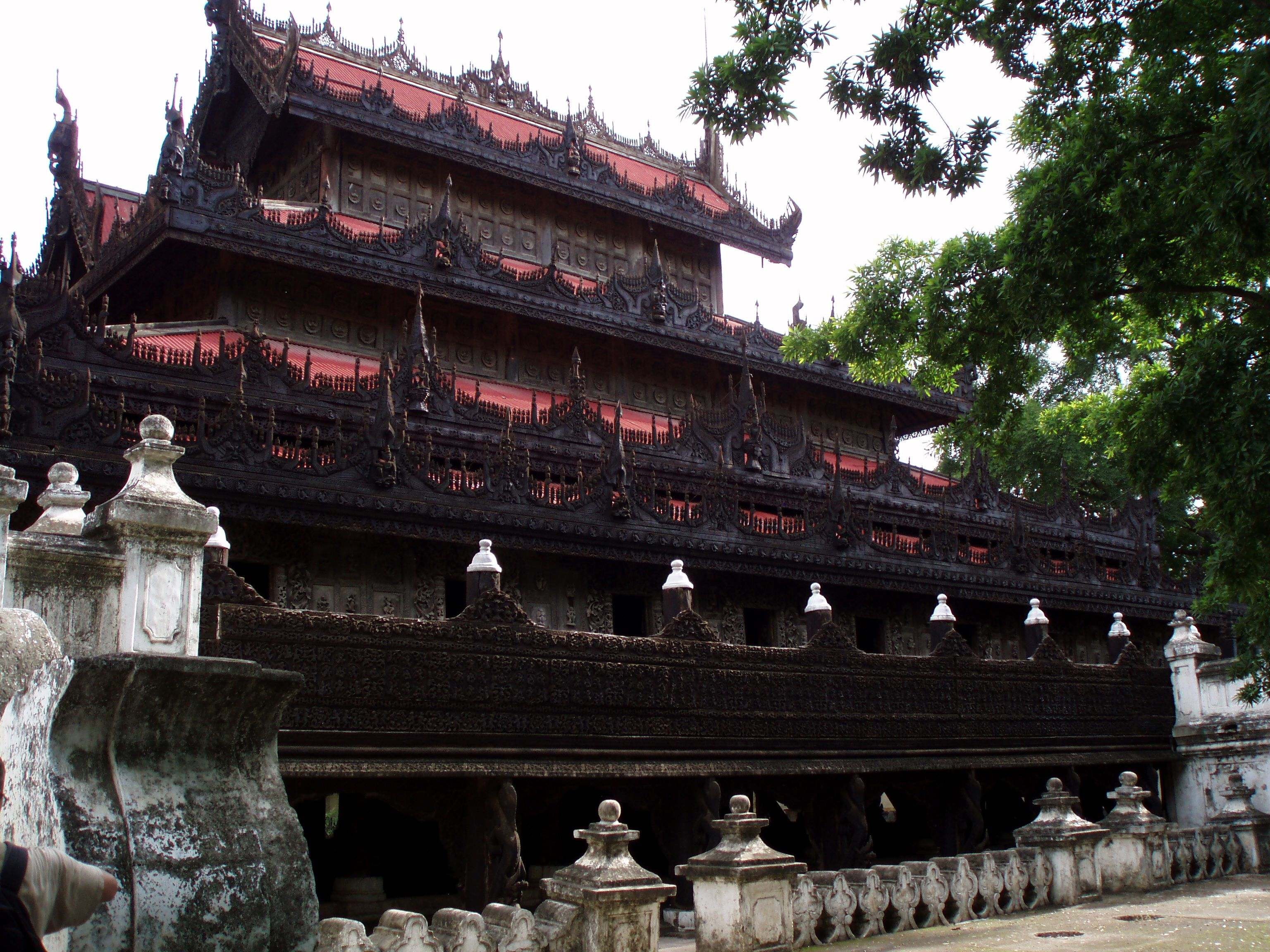 Famous for its intricate wood-carvings, this Shwenandaw monastery is a fragile reminder of the old Mandalay Palace. Actually, it was a part of the old palace later moved to its current site by King Thibaw in 1880. This preserved the Monastery as the rest was largely destroyed by fire during World War II